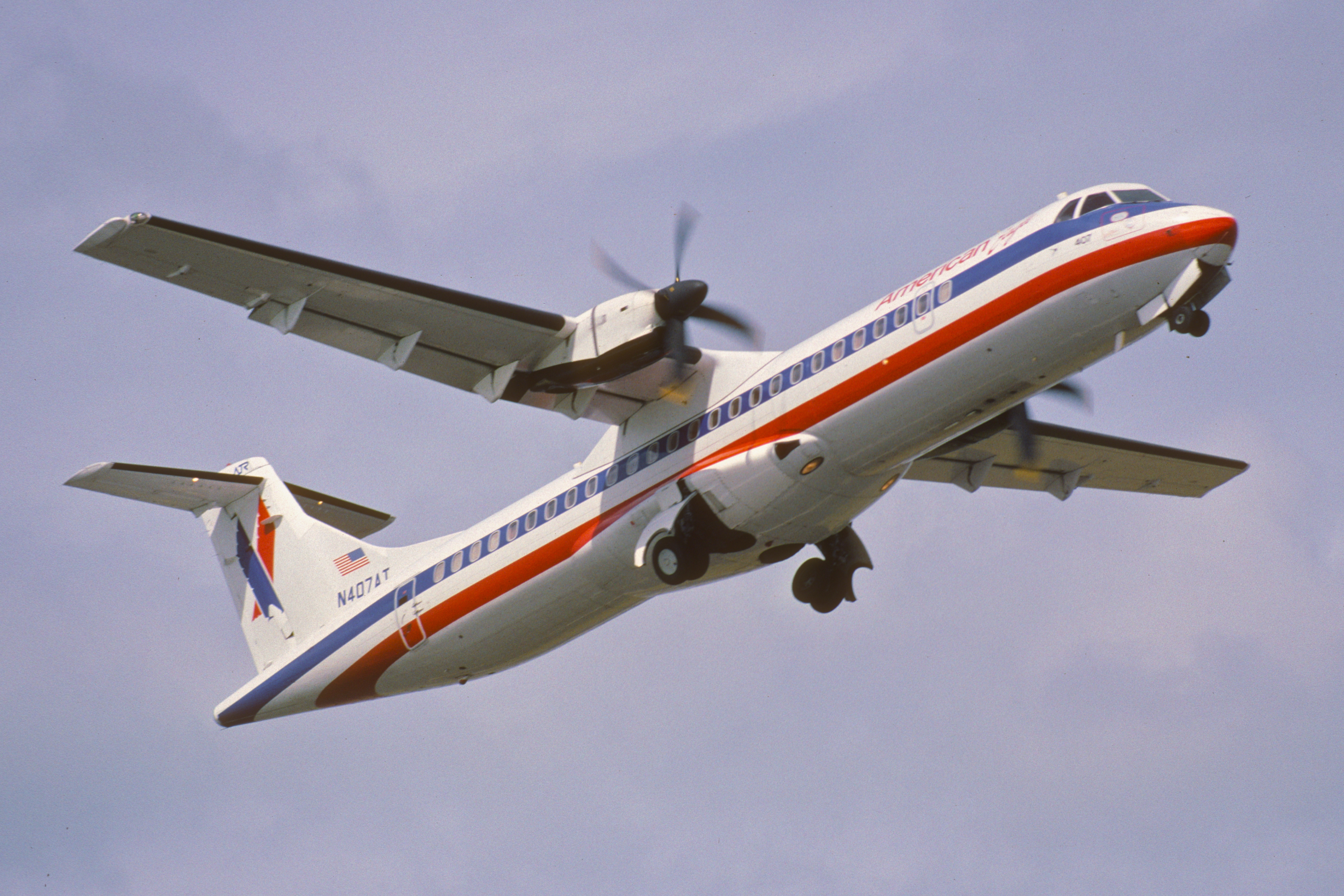 49ac - American Eagle ATR 72-212; N407AT@SXM;04.02.1999